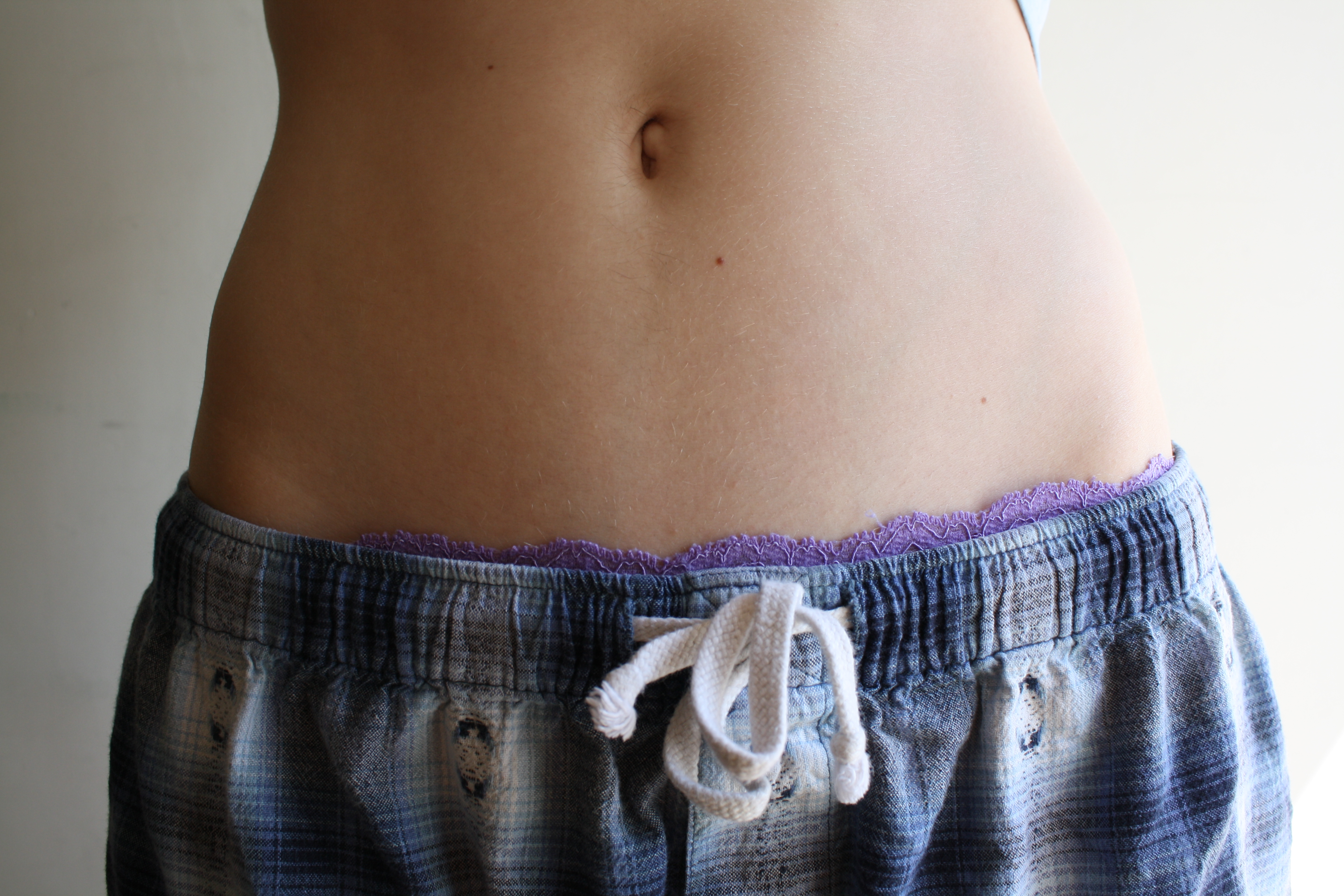 Female navel of a woman.